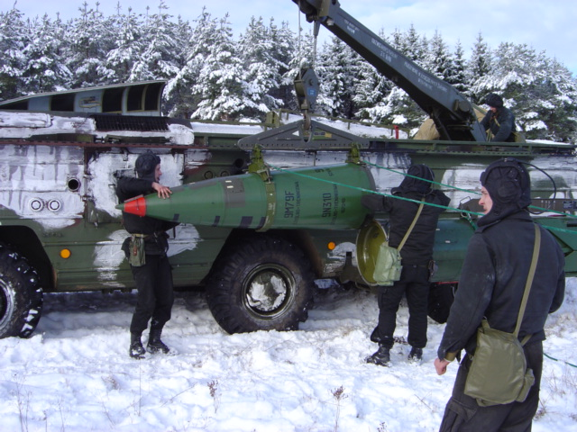 10-12.02.2004 - fire training and its live practice in winter in Poland within Drawsko Training Area. Technical battery - fitting the warhead.